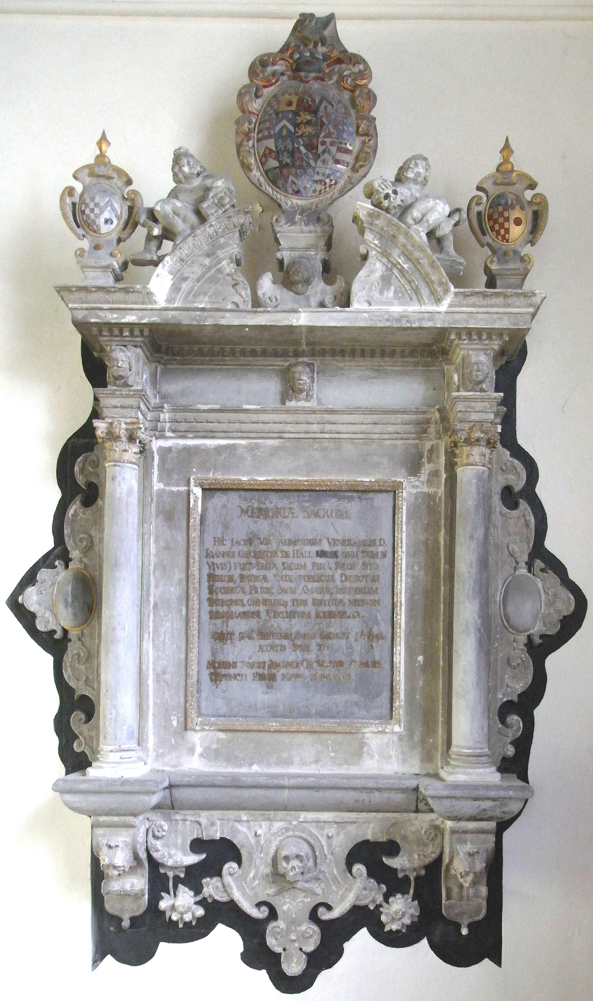 Mural monument of Sir John Chichester (1598-1669) of Hall, Bishop's Tawton, Devon. Bishop's Tawton Church, Devon. Latin inscription: Memoriae Sacrum. Hic jacet vir admodum venerabilis D(ominus) Jo(h)annes Chichester de Hall, Eques, qui (dum in vivis) fuit erga deum pius, regi suo fidelis, patriae dux publicus dilectus, ecclesiae filius, pacis amator, pauperum patronus, omnibusq(ue) tum justitiae necnon reliquarum virtutum exemplar. Obiit 24.o Septemb(ri) Anno Salutis 1669. Maerens posuit Jo(h)annes Chichester, Armiger, defuncti filius natu maximus ("Sacred to the Memory. Here lies a man altogether venerable, Sir John Chichester, Knight, who (whilst amongst the living) was towards God pious, to his king faithful, to his country a beloved public leader, to the Church a son, to peace a lover, to the poor a patron and in everything an example of the virtues. He died on the 24th of September in the Year of the Redemption 1669. John Chichester, Esquire, the eldest son of the deceased, mourning, erected this")